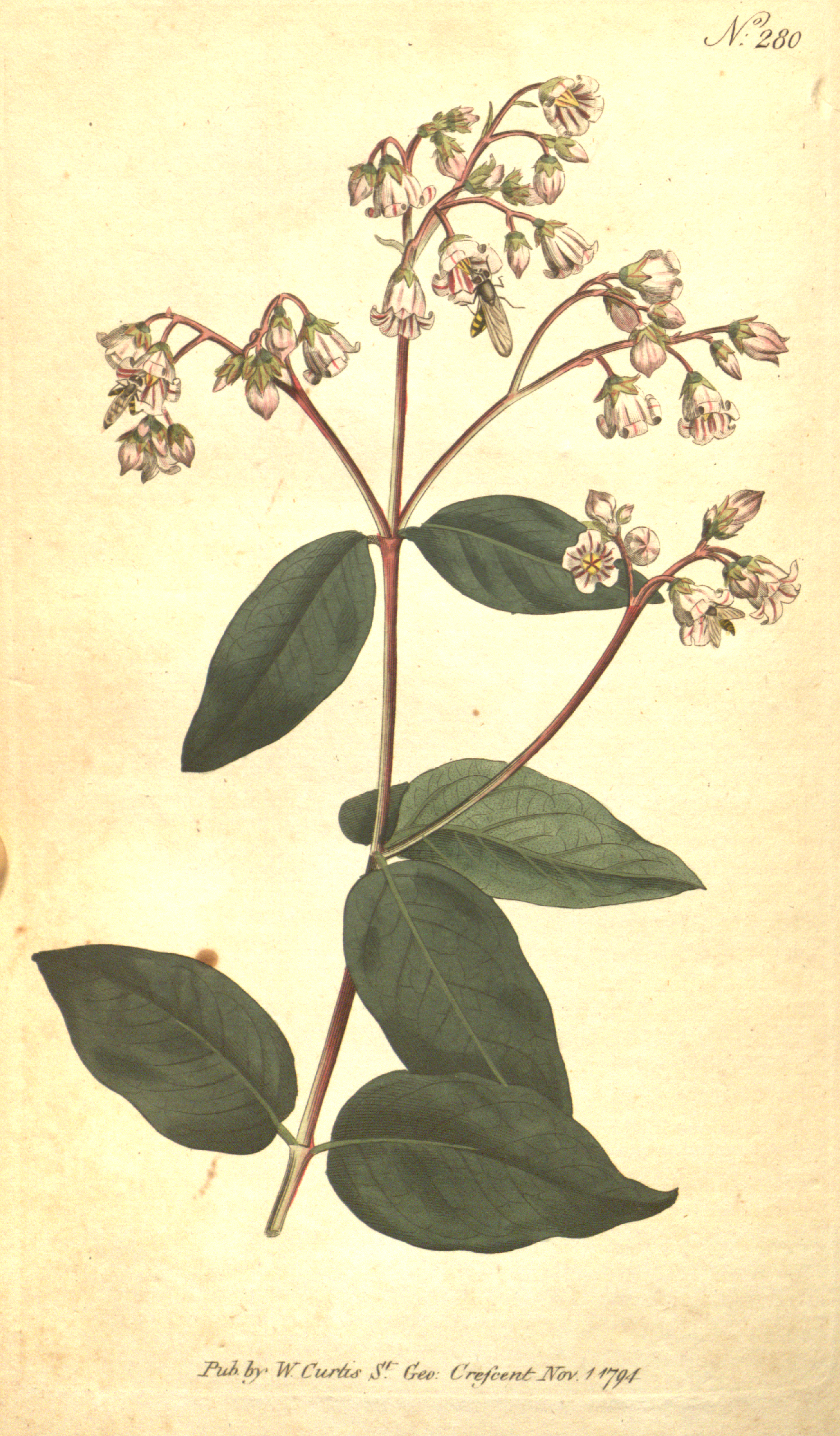 This is a plate from The Botanical Magazine, Volume 8.